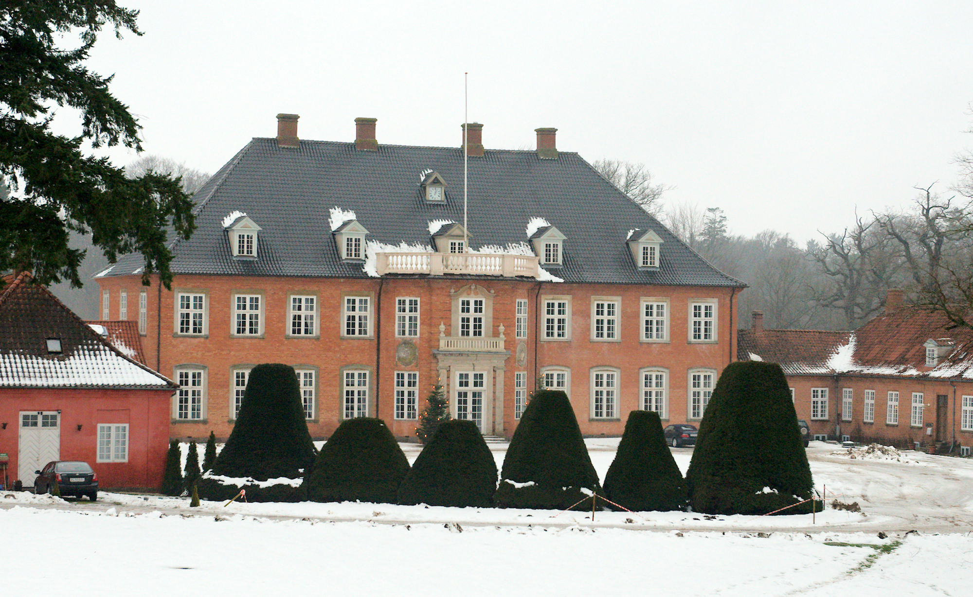 Langesoe main farmhouse